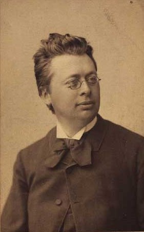 Karl Nikolaj Henry Petersen (1849-1896), Danish archaeologist and museum director